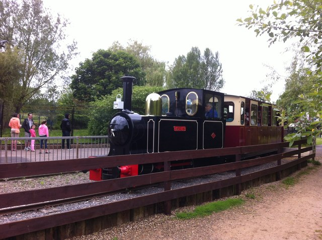 "Merlin" — a locomotive built by Alan Keef on the Wicksteed Park railway in Kettering, United Kingdom